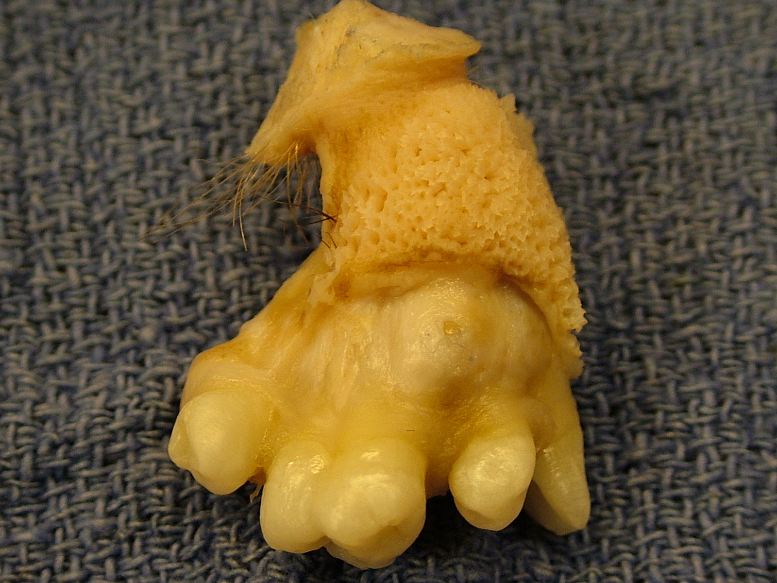 Teeth, developmentally mature skin and hair, part of a 7x4 cm mature cystic teratoma of the left ovary extracted by laparotomy resection.